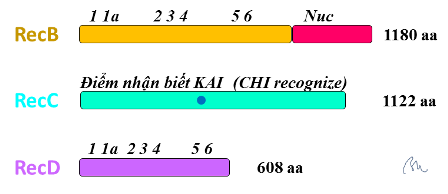 Structure of RecB, RecC and RecD polypeptides.